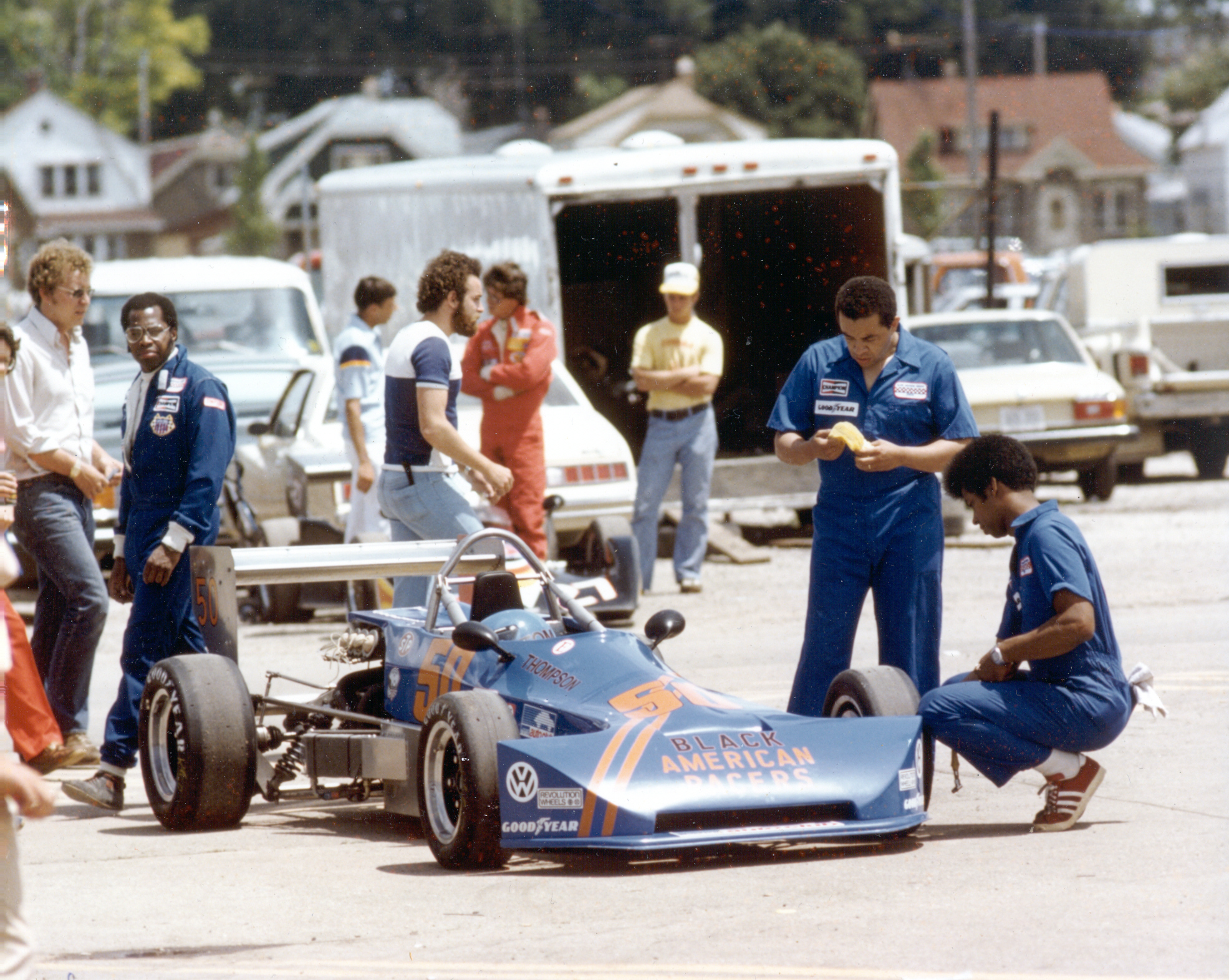 African American auto racing pioneers Tommy Thompson, Leonard W. Miller and Ron Hines